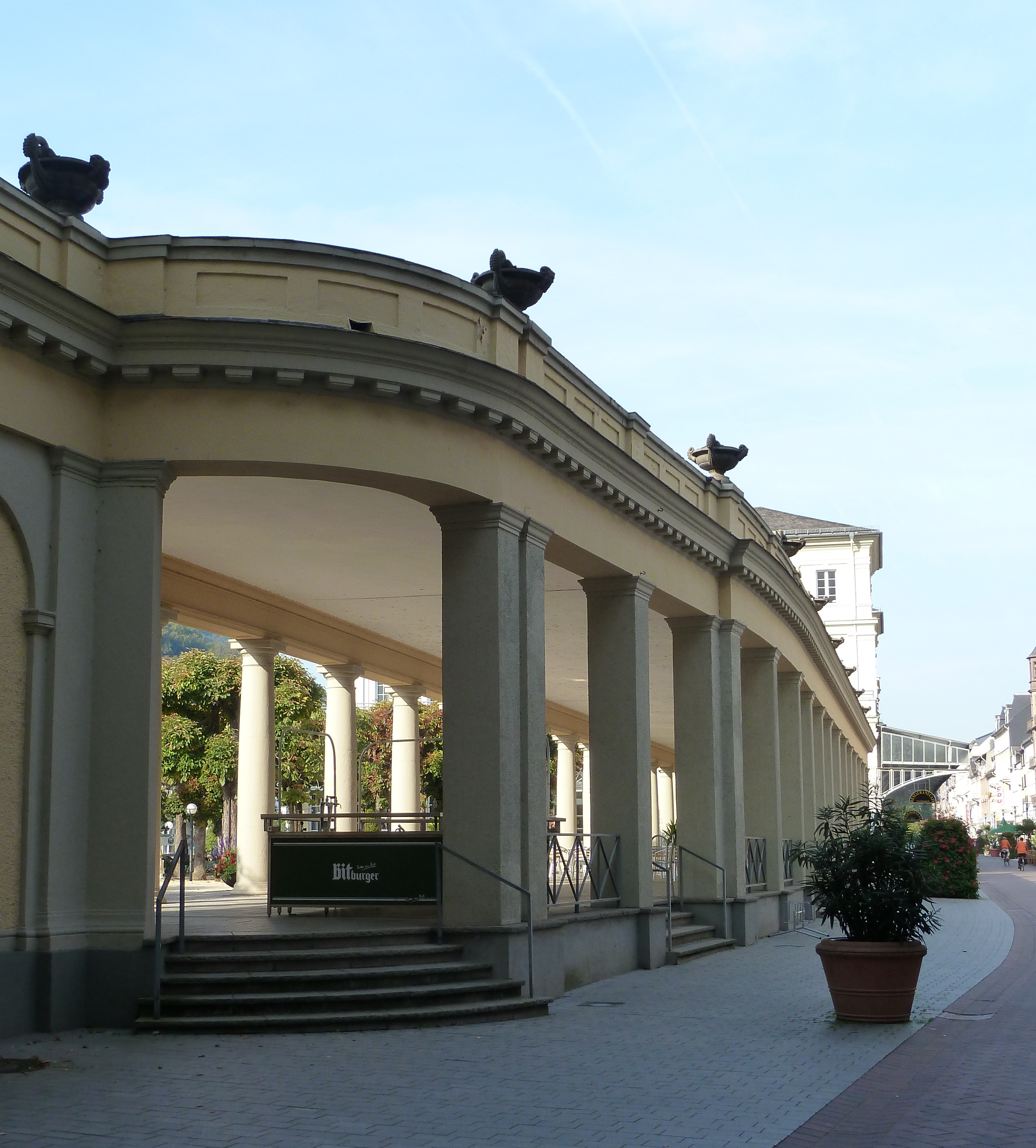 Kolonnaden in Bad Ems, connecting Kurhaus and Kursaal